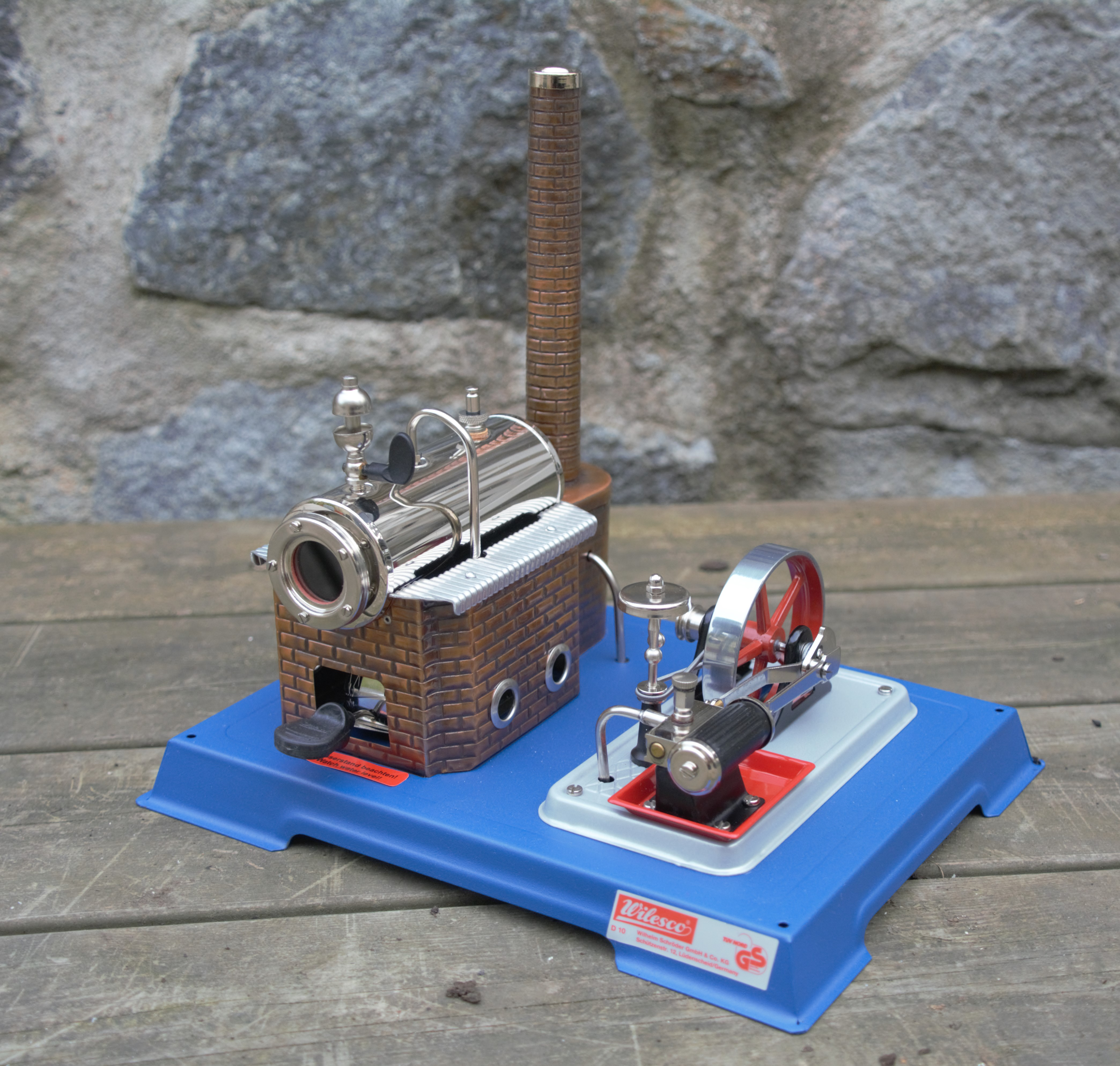 Wilesco D10 steam engine